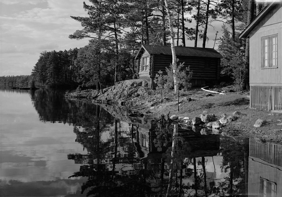 Burntside Lodge, Cabin No. 26, Off County Road 88, Ely vicinity, St. Louis County, MN. General view, looking north